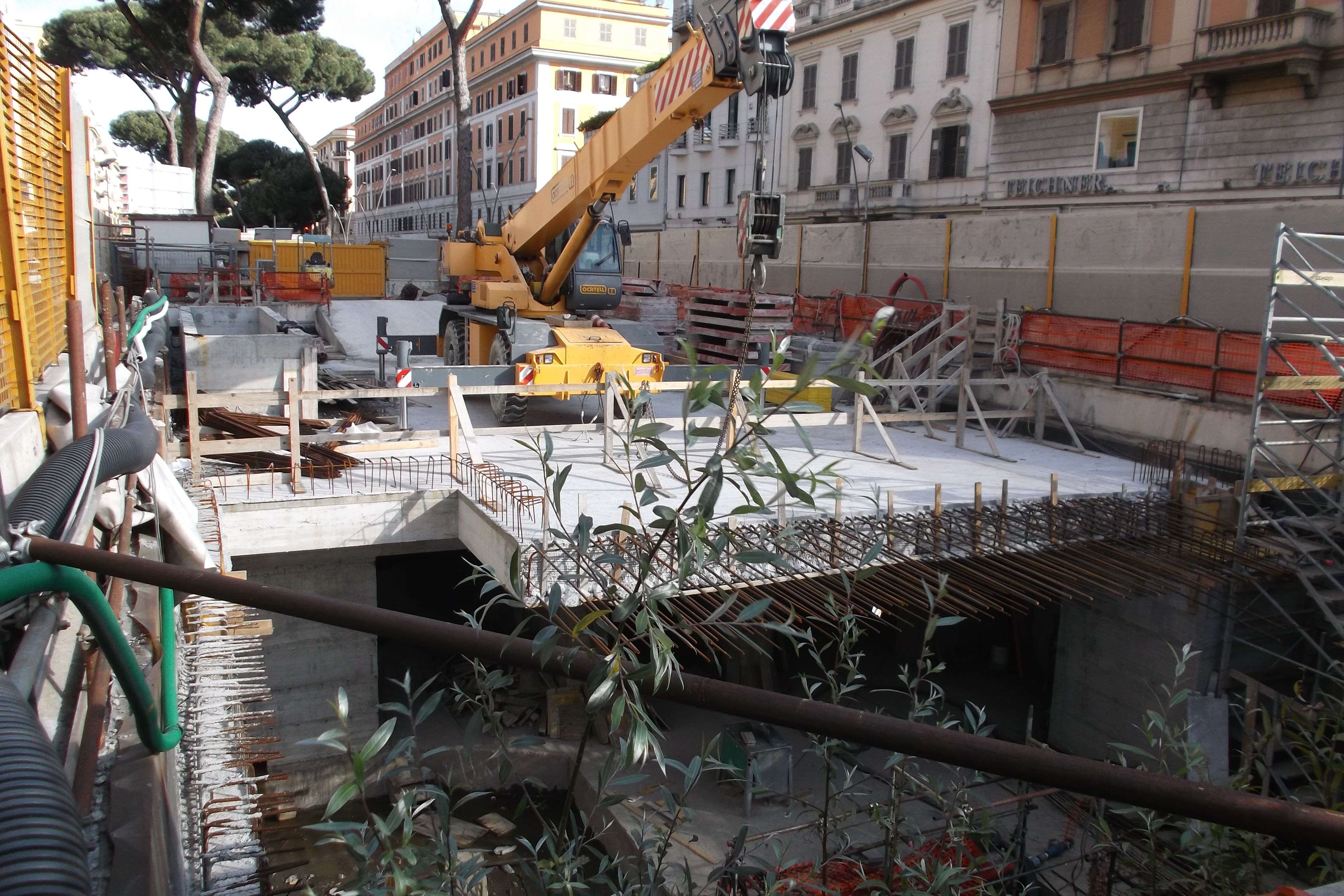 Construction of the Metro C station San Giovanni in Rome